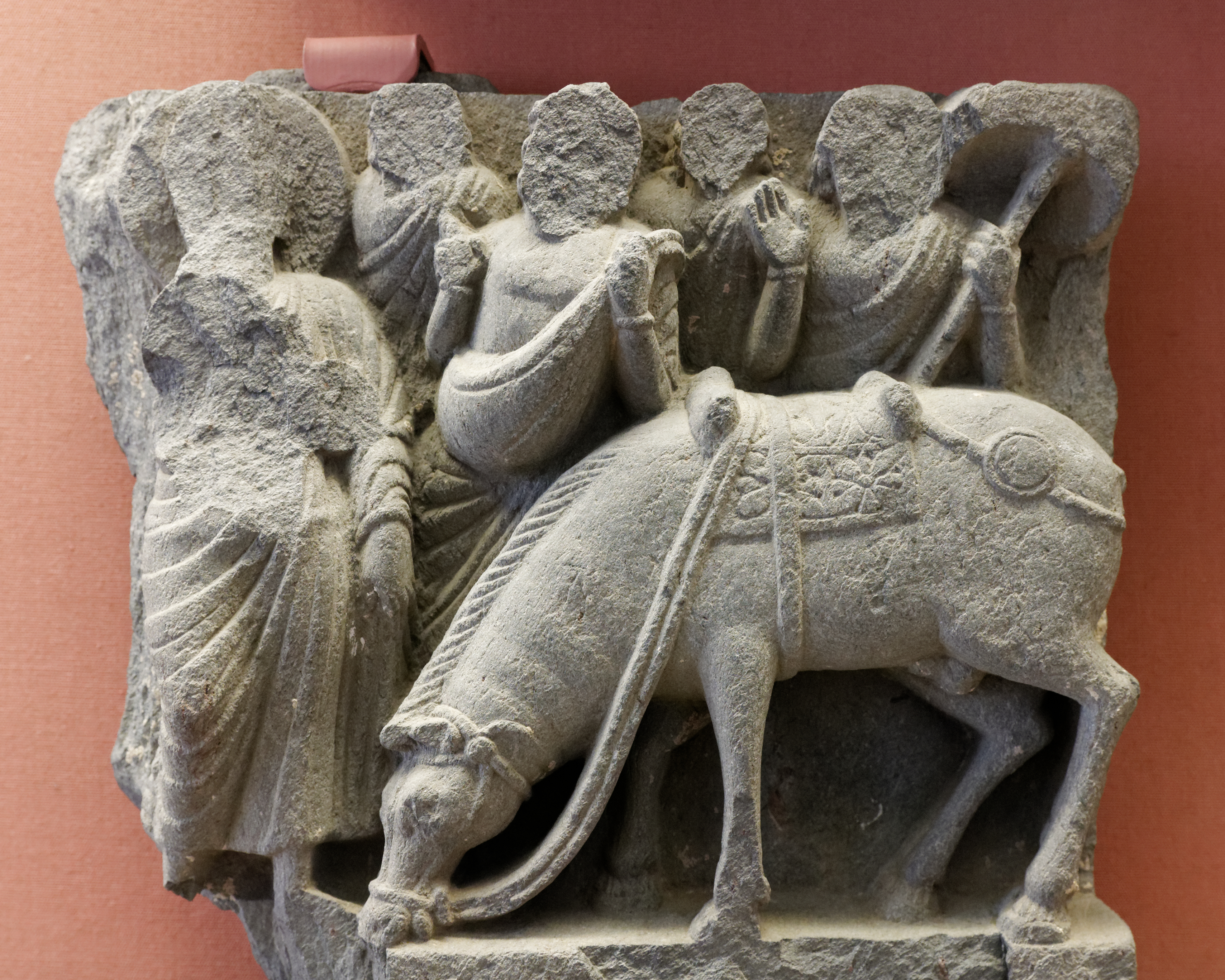 Panel showing Prince Siddharta parting from Kaṇṭhaka his horse and Chandaka his groom.